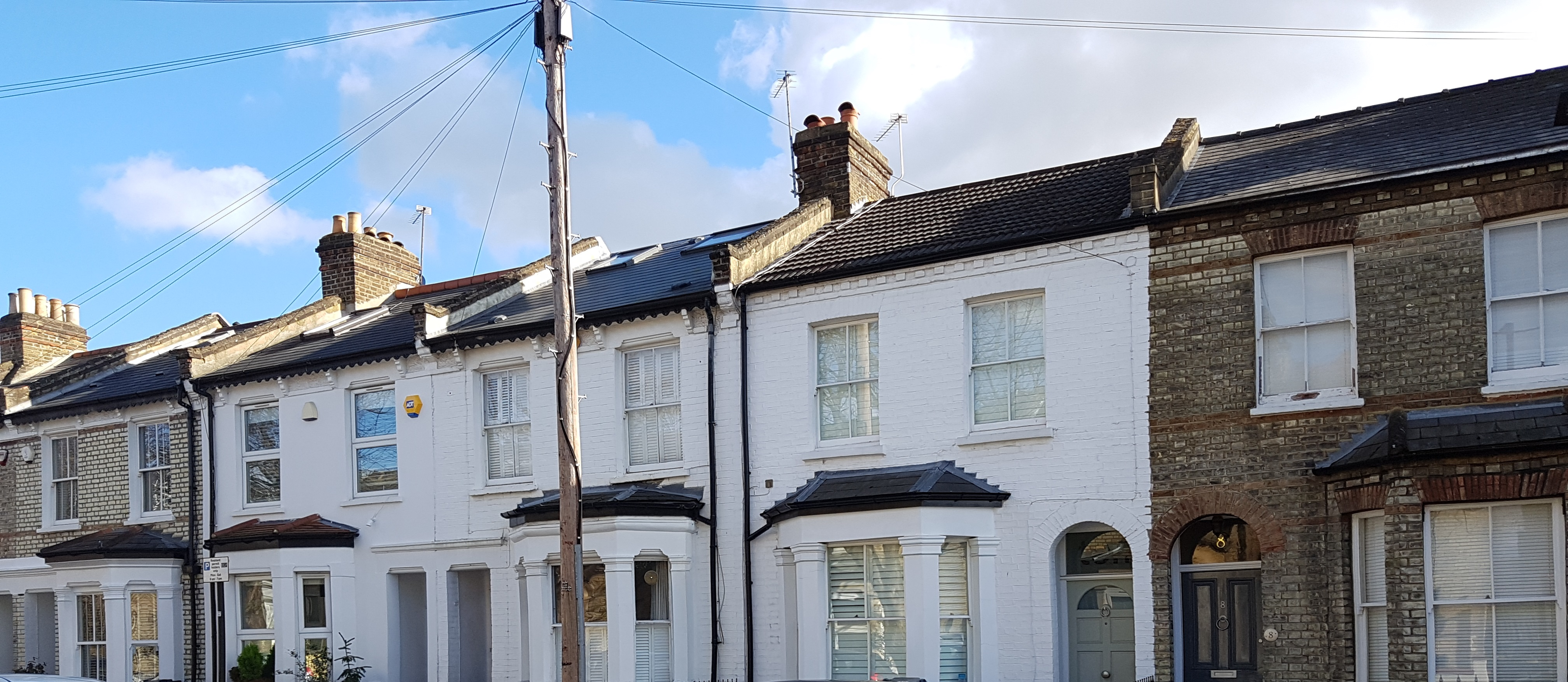 Housing